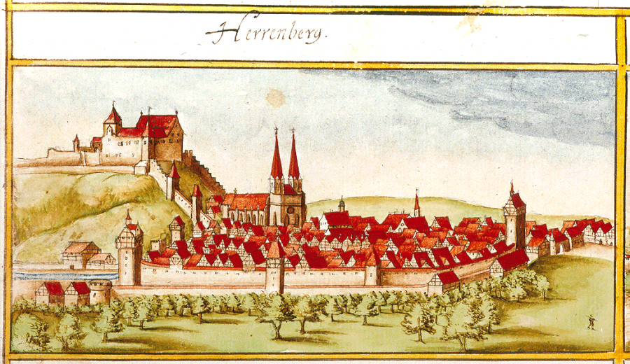 View of Herrenberg from the forest register books created by Andreas Kieser